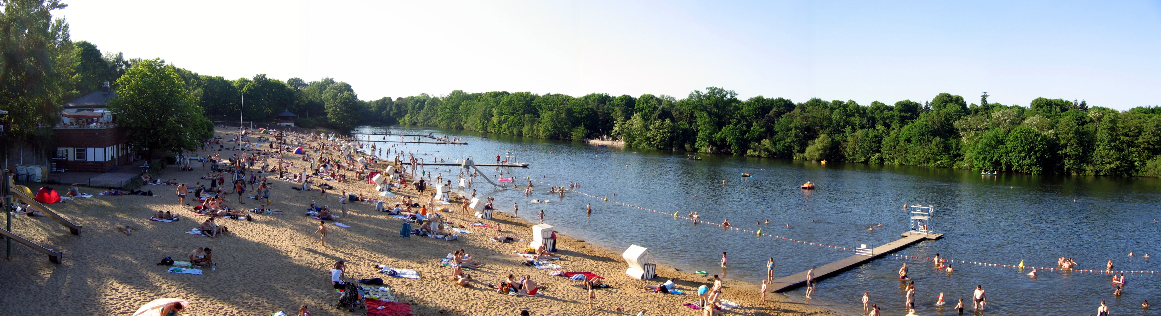 A view of the beach at Plötzensee in Berlin. The file's description page can be found here.